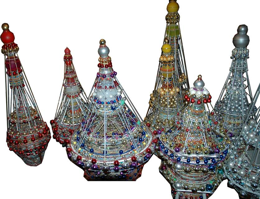 Complex Pyramid